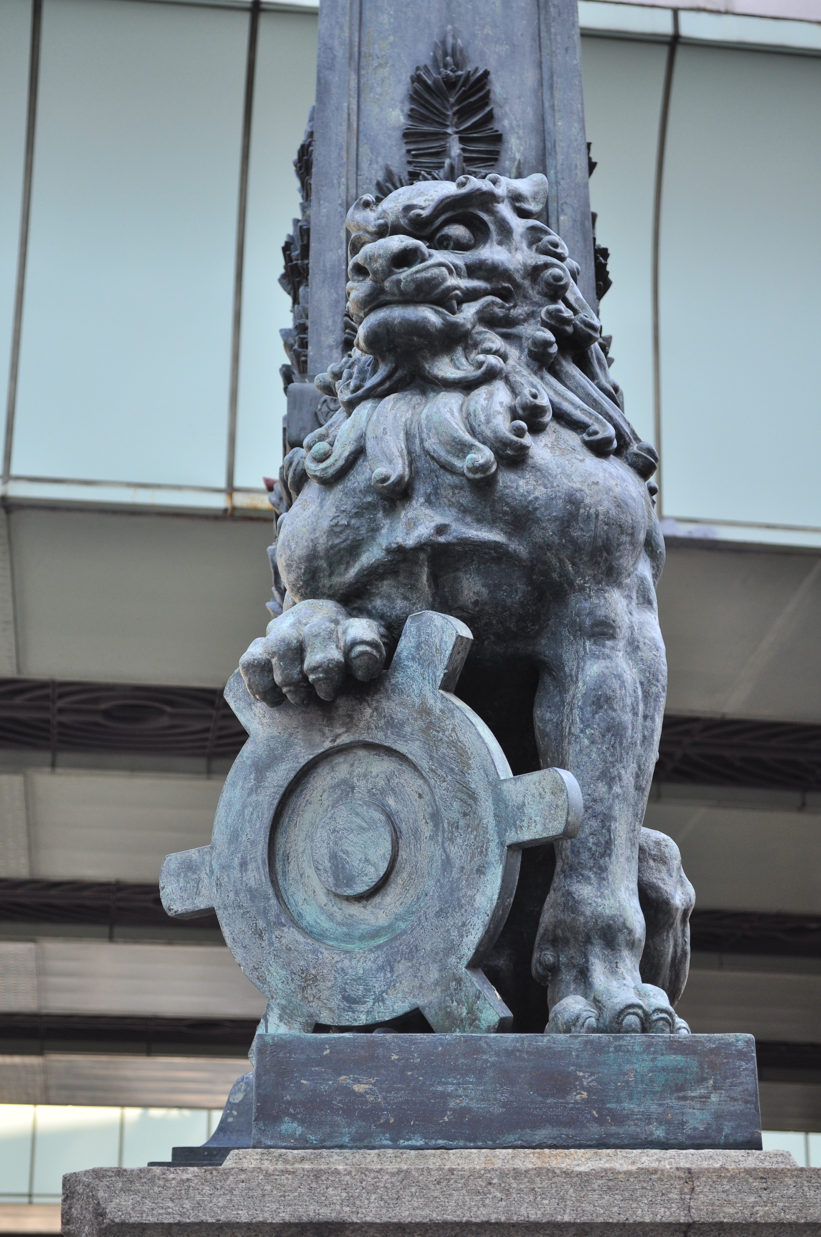 Nihonbashi, Tokyo, Japan.